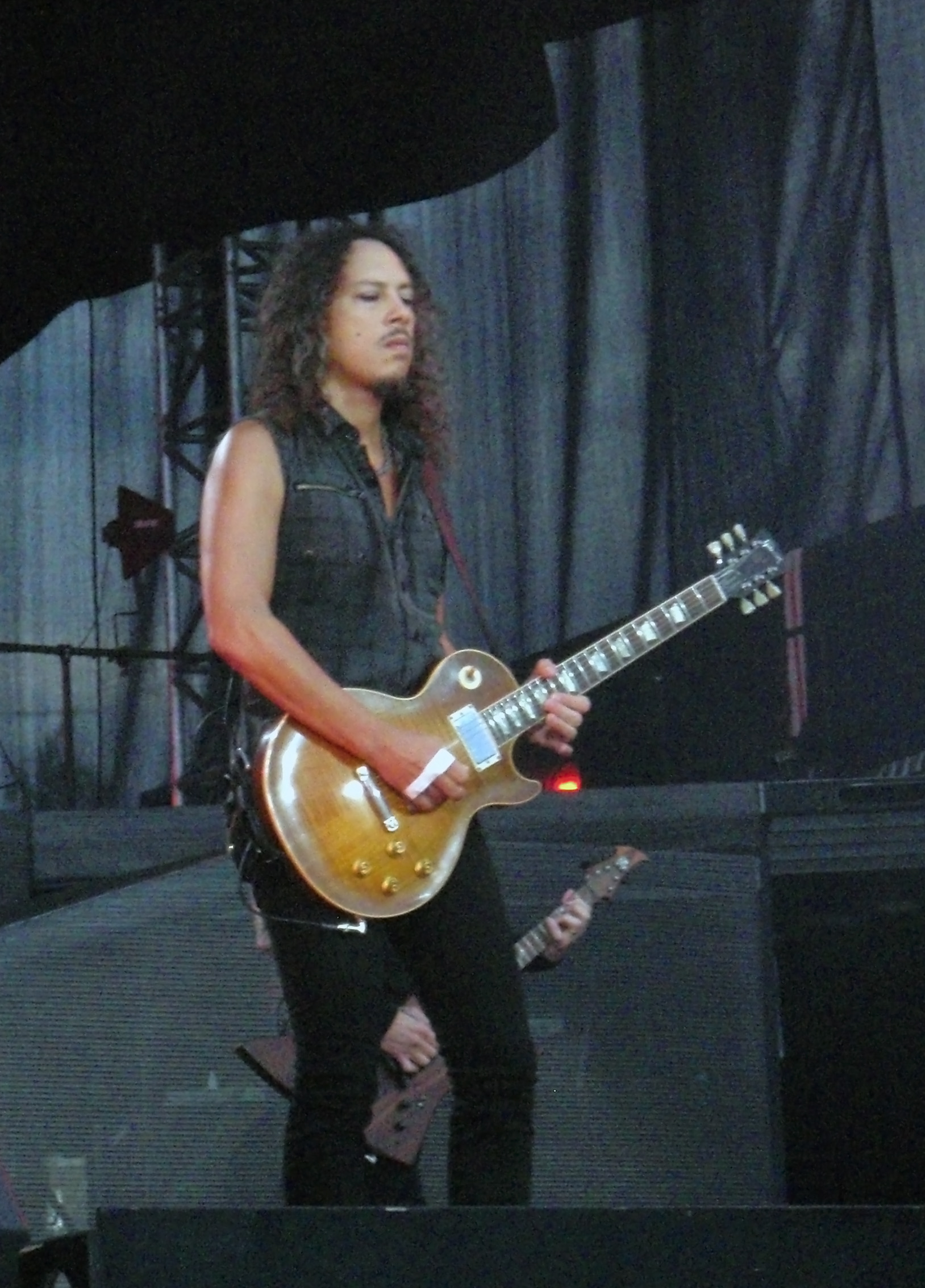 Kirk Hammett from Metallica performing at Sonisphere Festival in Kirjurinluoto, Pori, Finland.